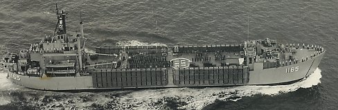 United States Navy landing ship tank USS Washoe County (LST-1165)